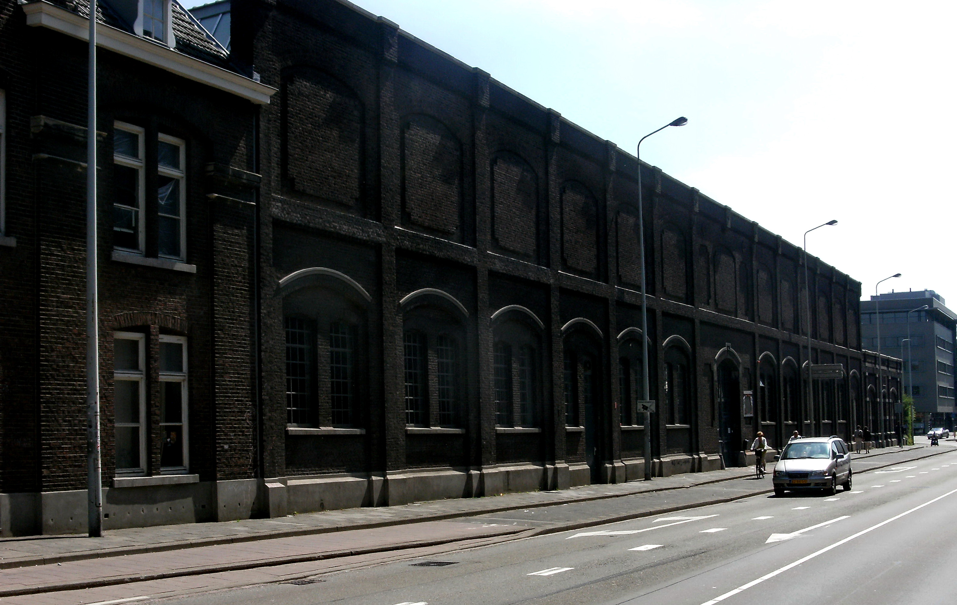 2013-05-04 in Maastricht; Timmerfabriek.